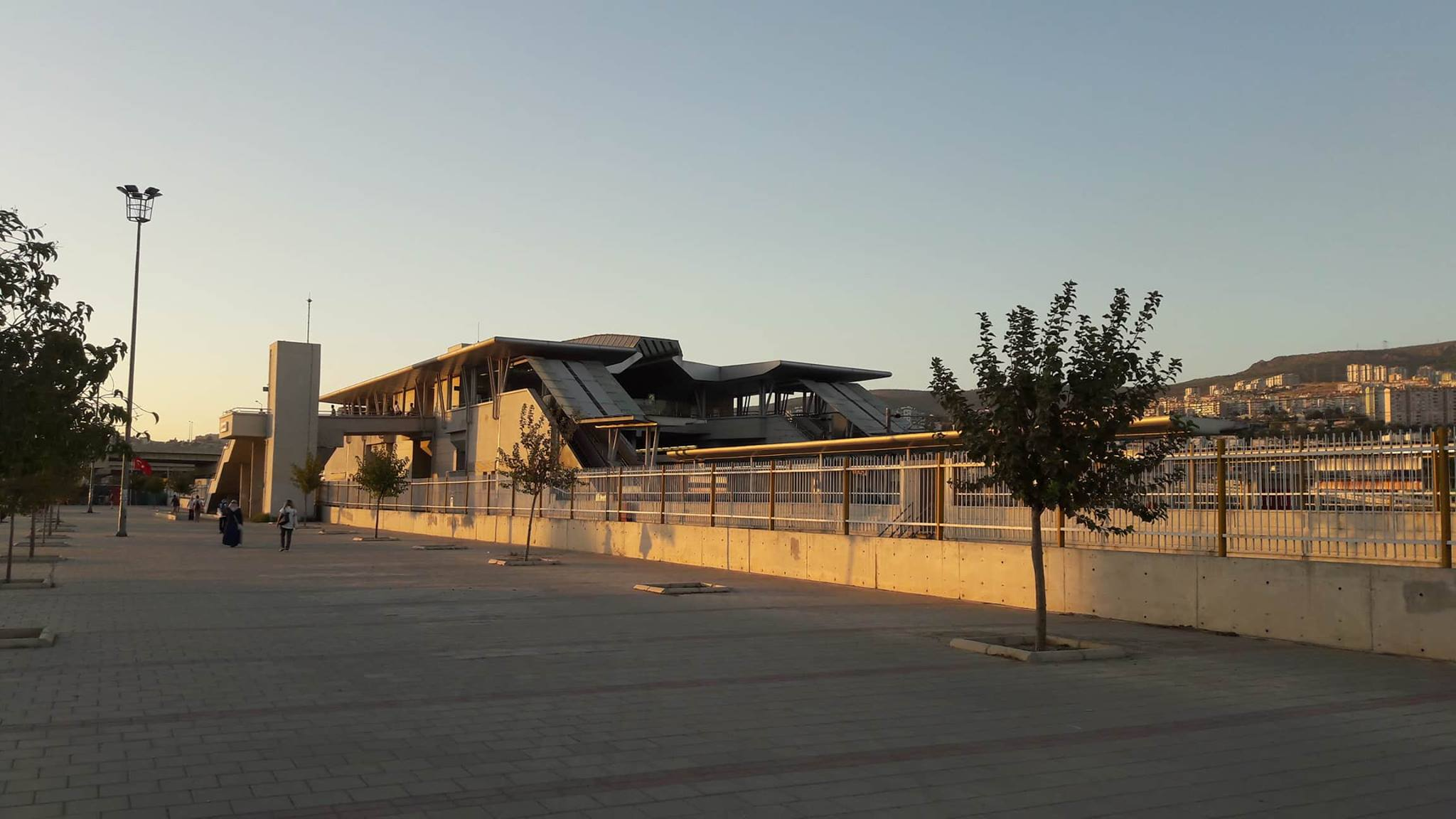 Mavsehir IZBAN station.